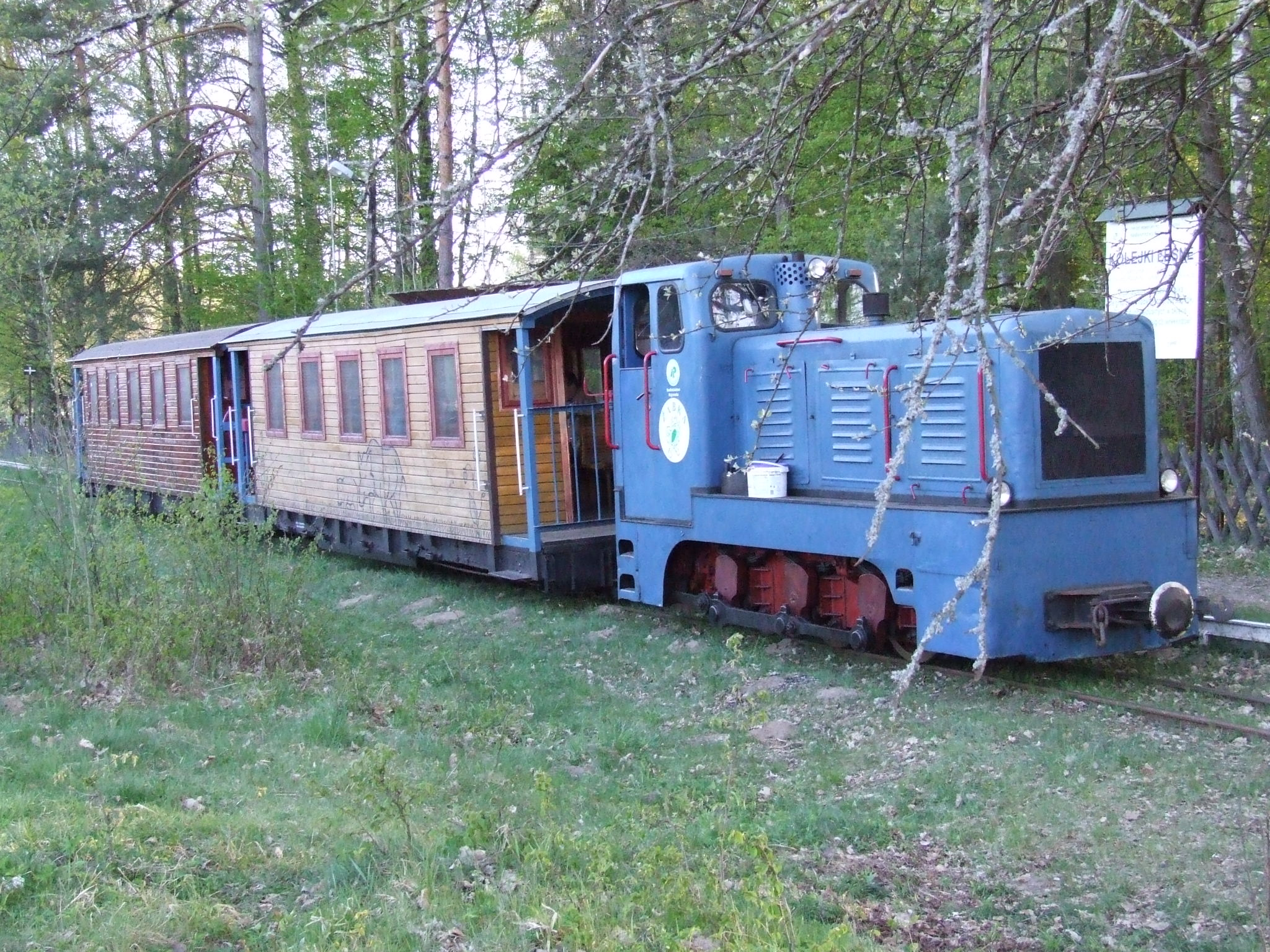 Narrow guage train in Hajnowka, Poland. Locomotive V10C.